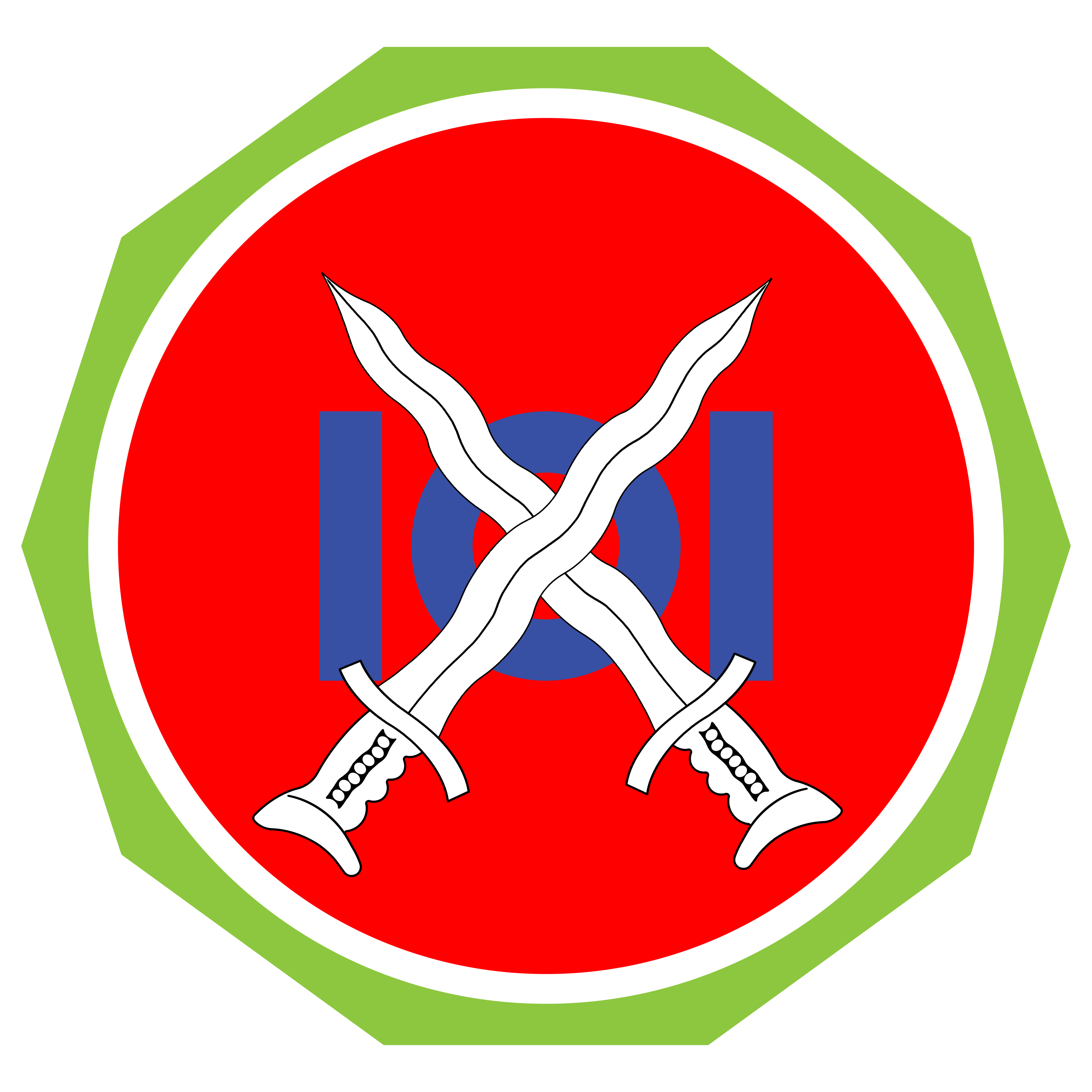 101st Philippine Division emblem from 1941-42, possibly not developed until late in that period or just after; color versions of this are a matter of record, and bronze version(s) of these emblems are seen on monuments around the Philippines.